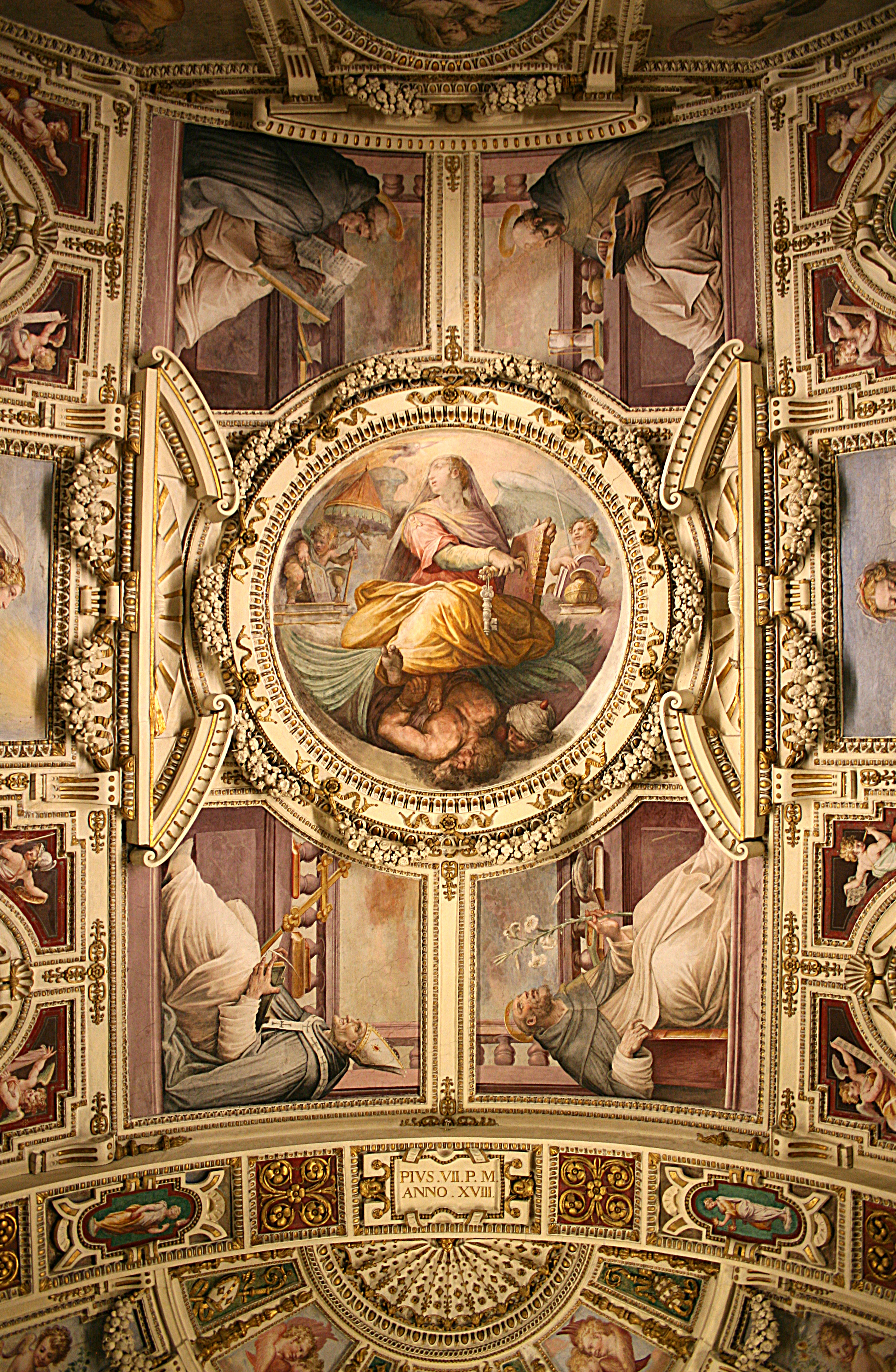 Chapel of St. Pius V decorated by Jacopo Zucchi from the drawings of Giorgio Vasari - Palace of the Vatican.